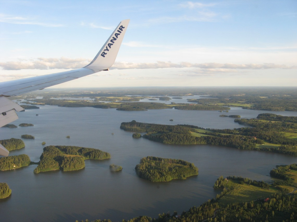 Pyhäjärvi in Vesilahti, Finland from air